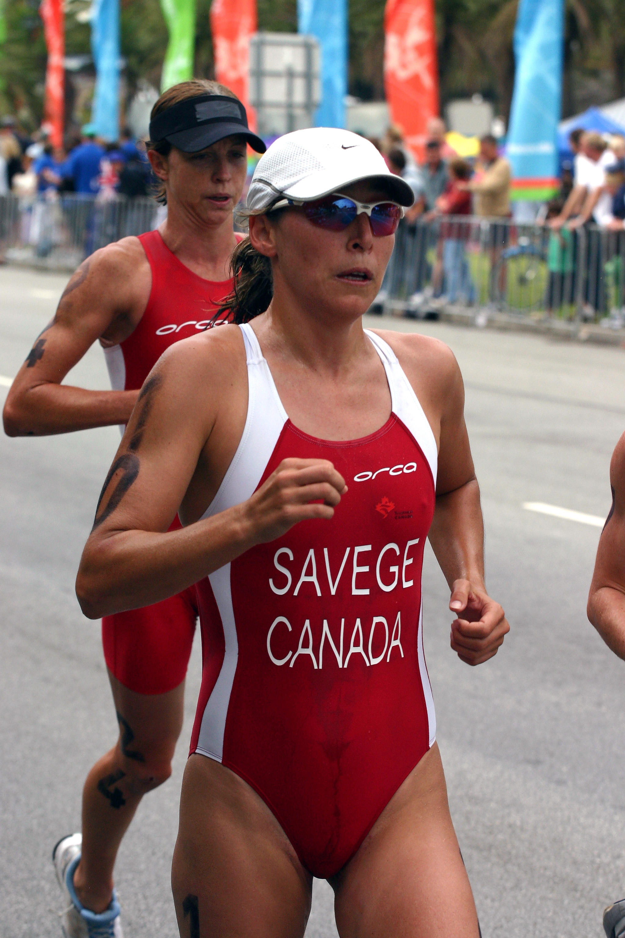 Commonwealth Games triathlon held on Beach Road, St Kilda.